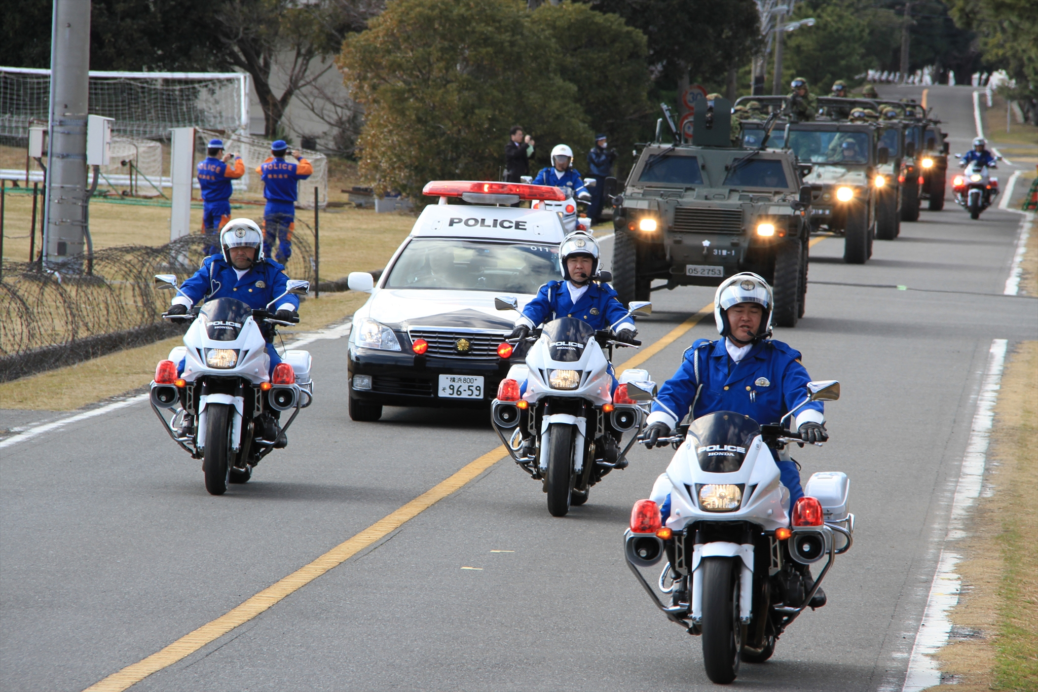 Title 31i-US-2 (警察との共同訓練（緊急輸送訓練）)_R.JPG Album 教育訓練等 警察との共同訓練